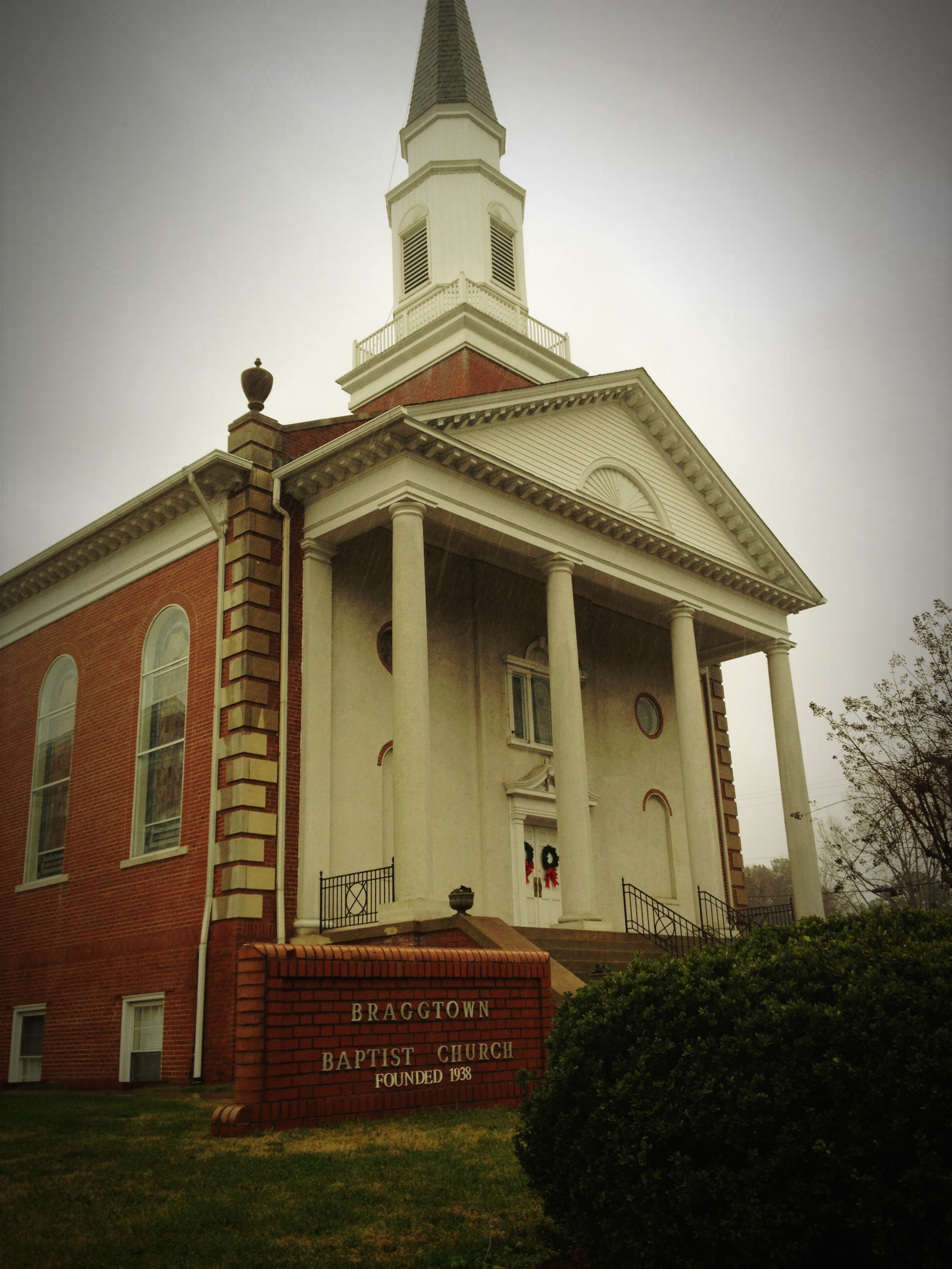 Braggtown Baptist Church, located at 3218 North Roxboro Street, Durham, North Carolina 27704.